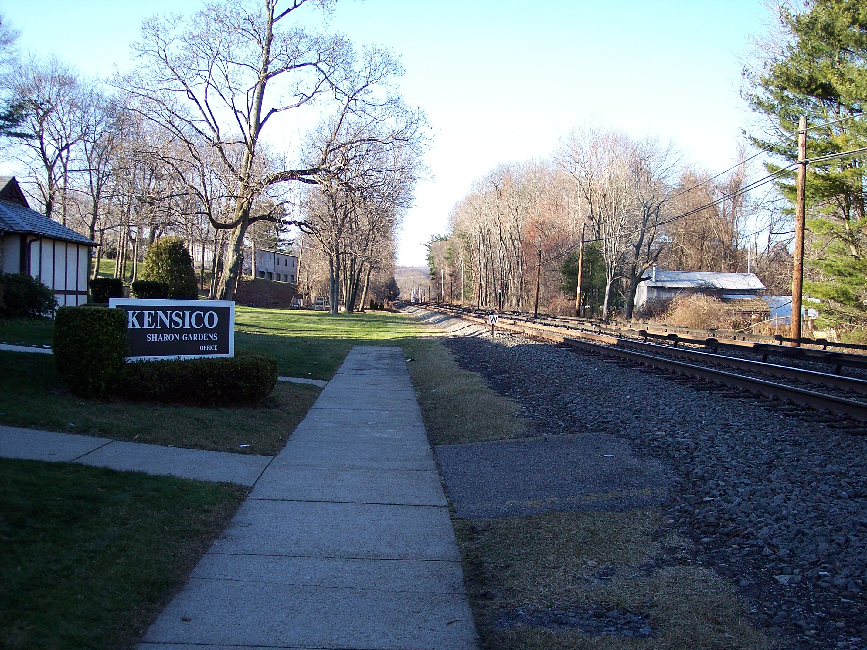 Former Kensico Cemetery station platform on the Metro-North Railroad Harlem Line in New York. Looking northwest toward Brewster.